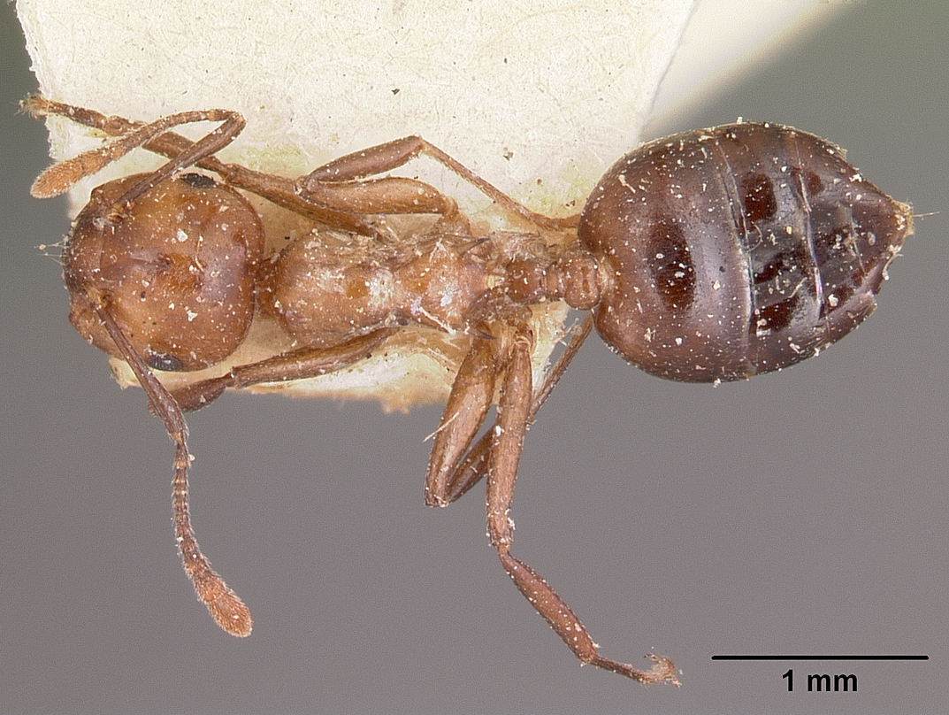 Dorsal view of ant Crematogaster agnetis specimen casent0101731.